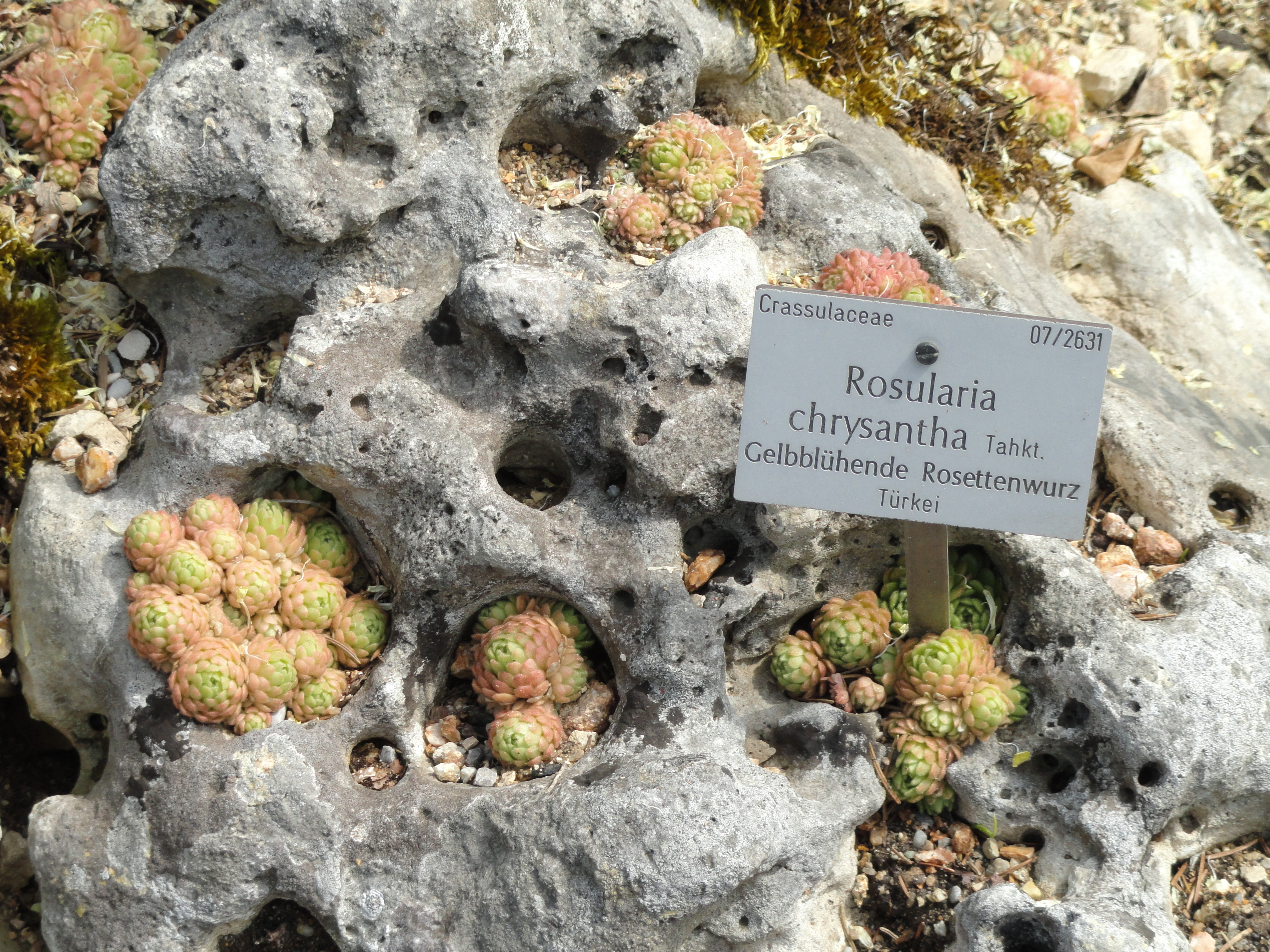 Rosularia chrysantha specimen in the Botanischer Garten München-Nymphenburg, Munich, Germany.